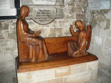 Alan Durst's carving "The Annunciation" in Winchester Cathedral